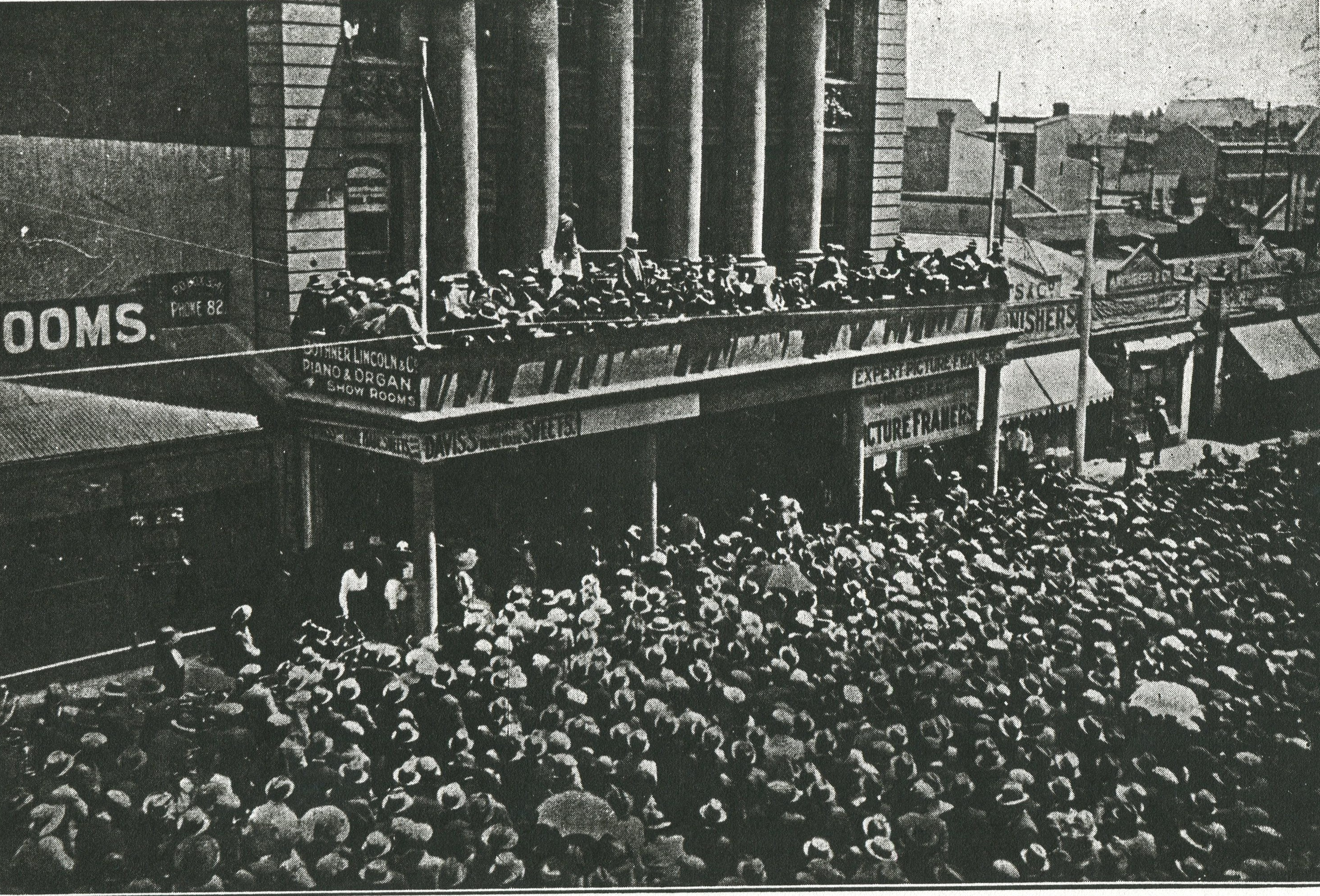 The trades Hall in the city of Johannesburg. This part of the Jouburgpedia project with JHF.